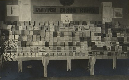 Bulgaria